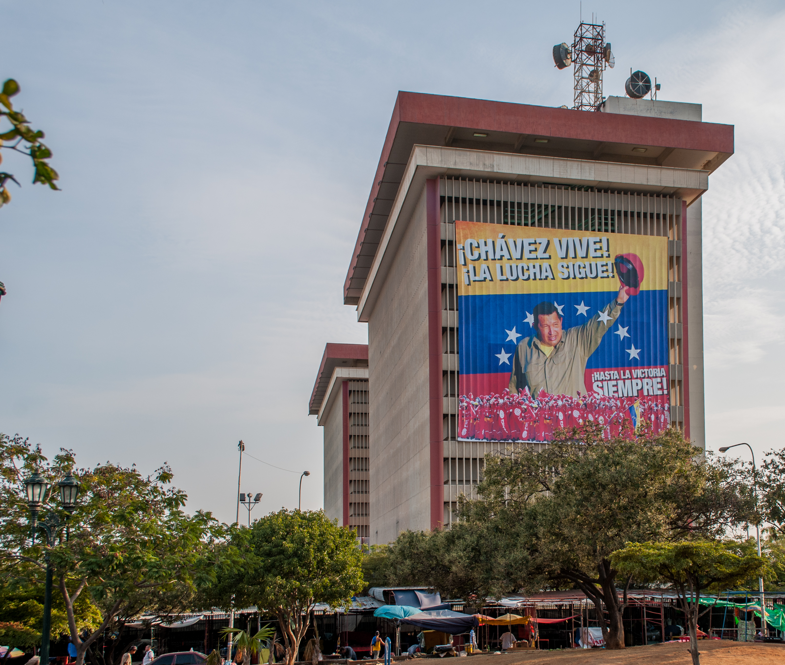 PDVSA Towers in Maracaibo Center